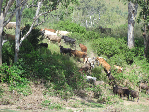 Cattle climbing bank of the Brisbane River north of Linville